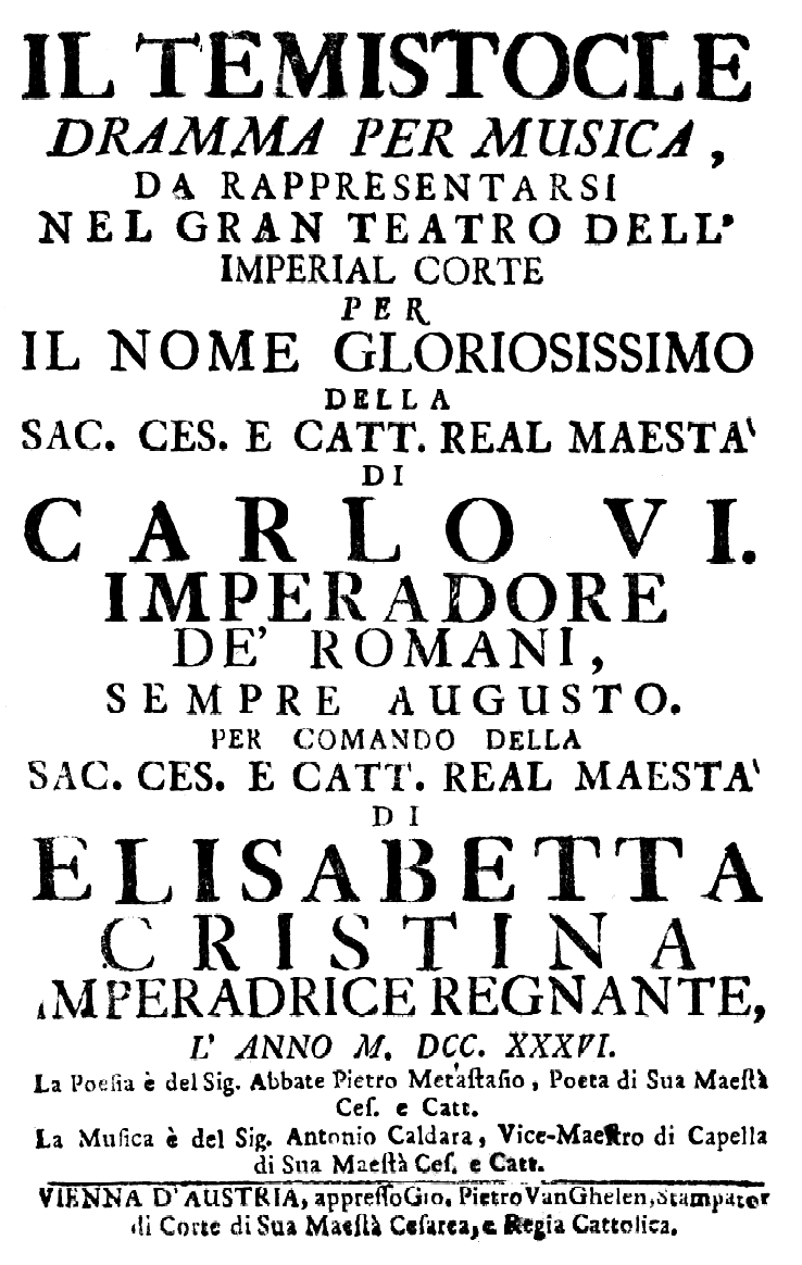 Antonio Caldara - Temistocle - titlepage of the libretto - Vienna 1736